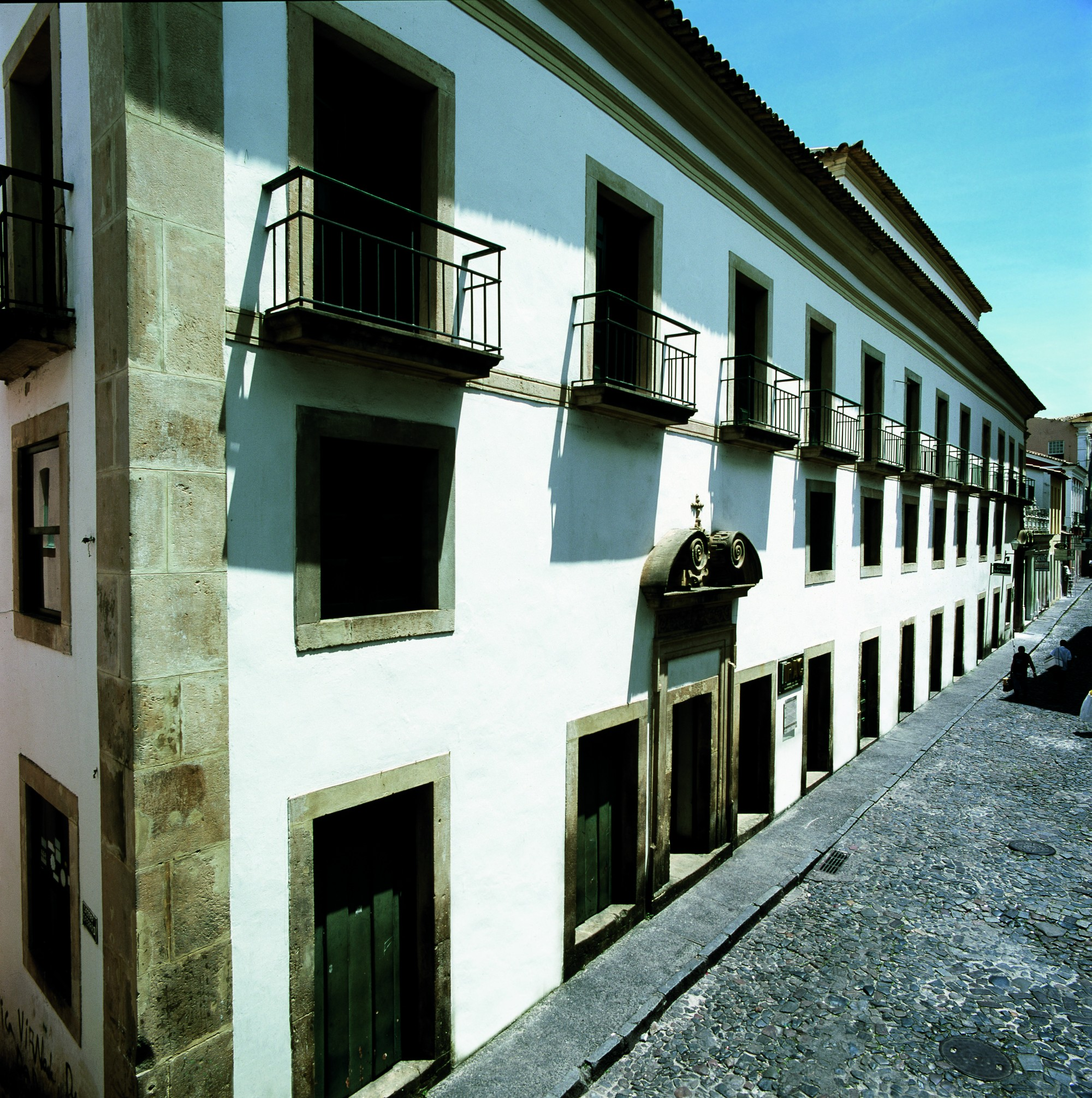 Solar Ferrão, Museu Abelardo Rodrigues, museum of sacred art, in Salvador, Bahia